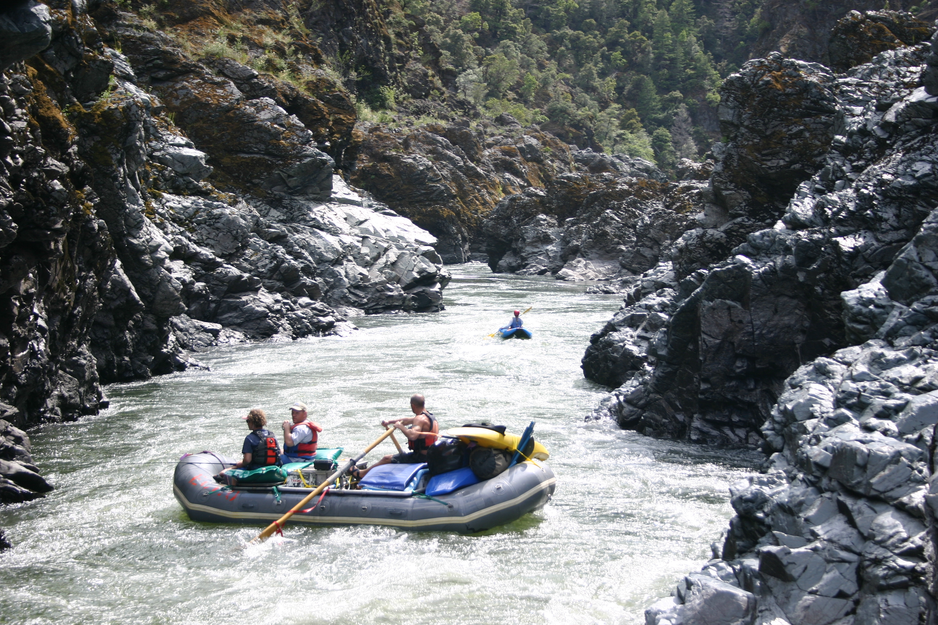 Rafters negotiate Mule Creek Canyon on the Rogue River in the U.S. state of Oregon.